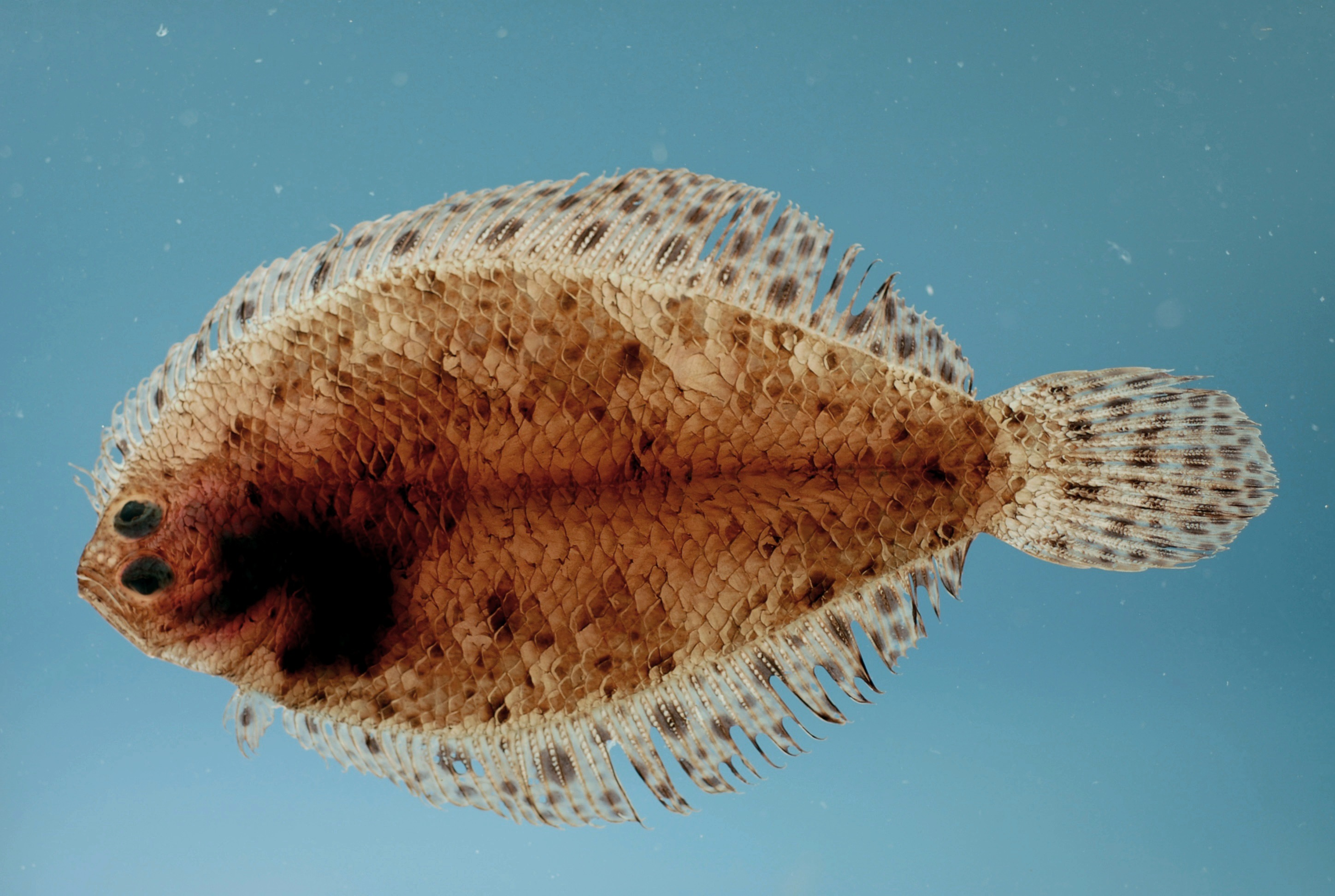 Citharichthys macrops from the gulf of mexico